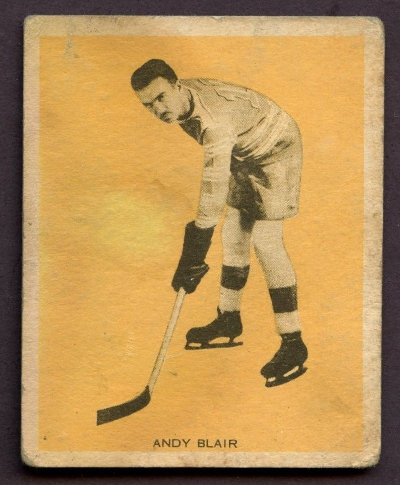 1933-34 hockey card of Maple Leafs player Andy Blair. No copyright information is displayed on the front or back of the card.